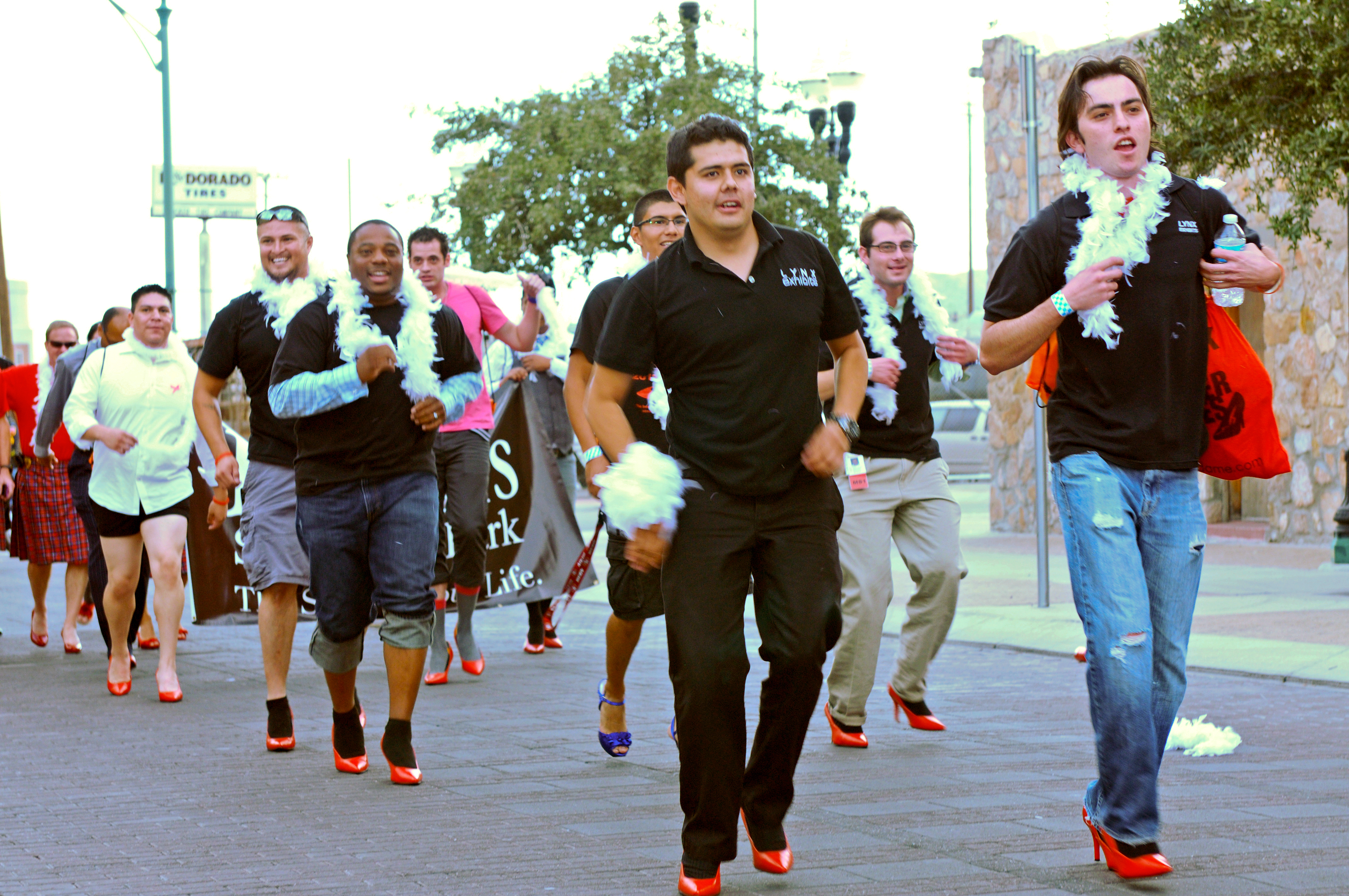 Men wearing red high-heel shoes march along the streets of El Paso Oct. 16, 2012, in support of the Young Women's Christian Association's Walk a Mile in Her Shoes event. The event was held to increase awareness of violence against women and raise funds for the YWCA's Independence house that shelters women and children who are victims of domestic violence. (U.S. Army photo by Sgt. Robert Golden) (Photo Credit: Story by Sgt. Robert Golden, 16th Mobile Public Affairs Detachment)